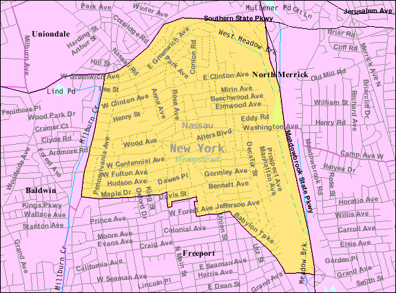 U.S. Census 2000 reference map for Roosevelt